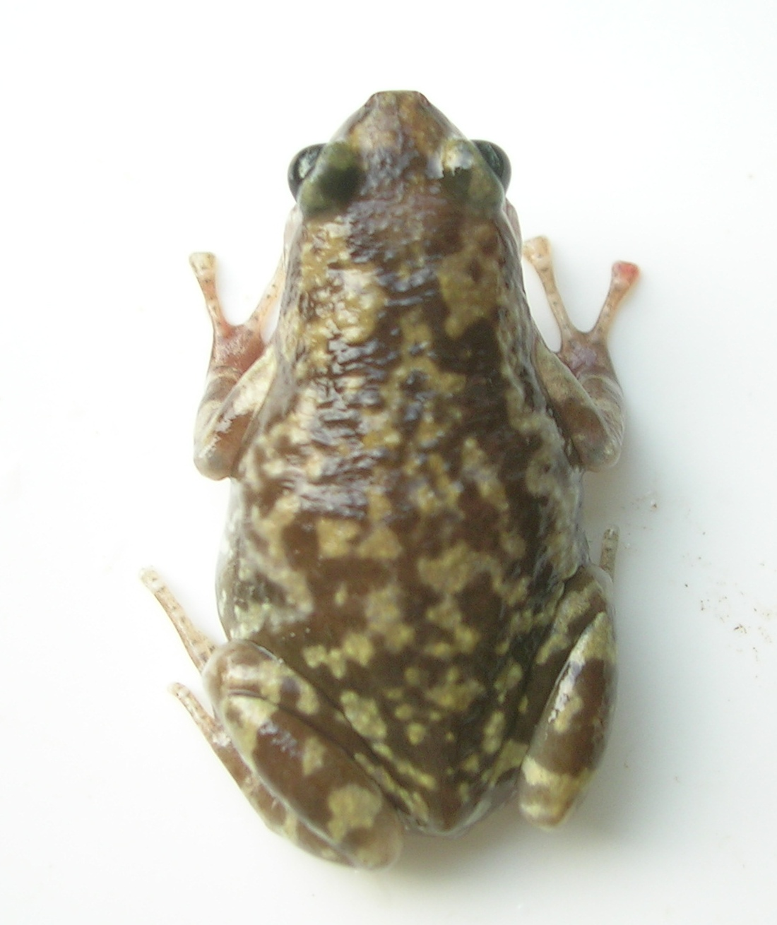 Ramanella variegata from Bangalore